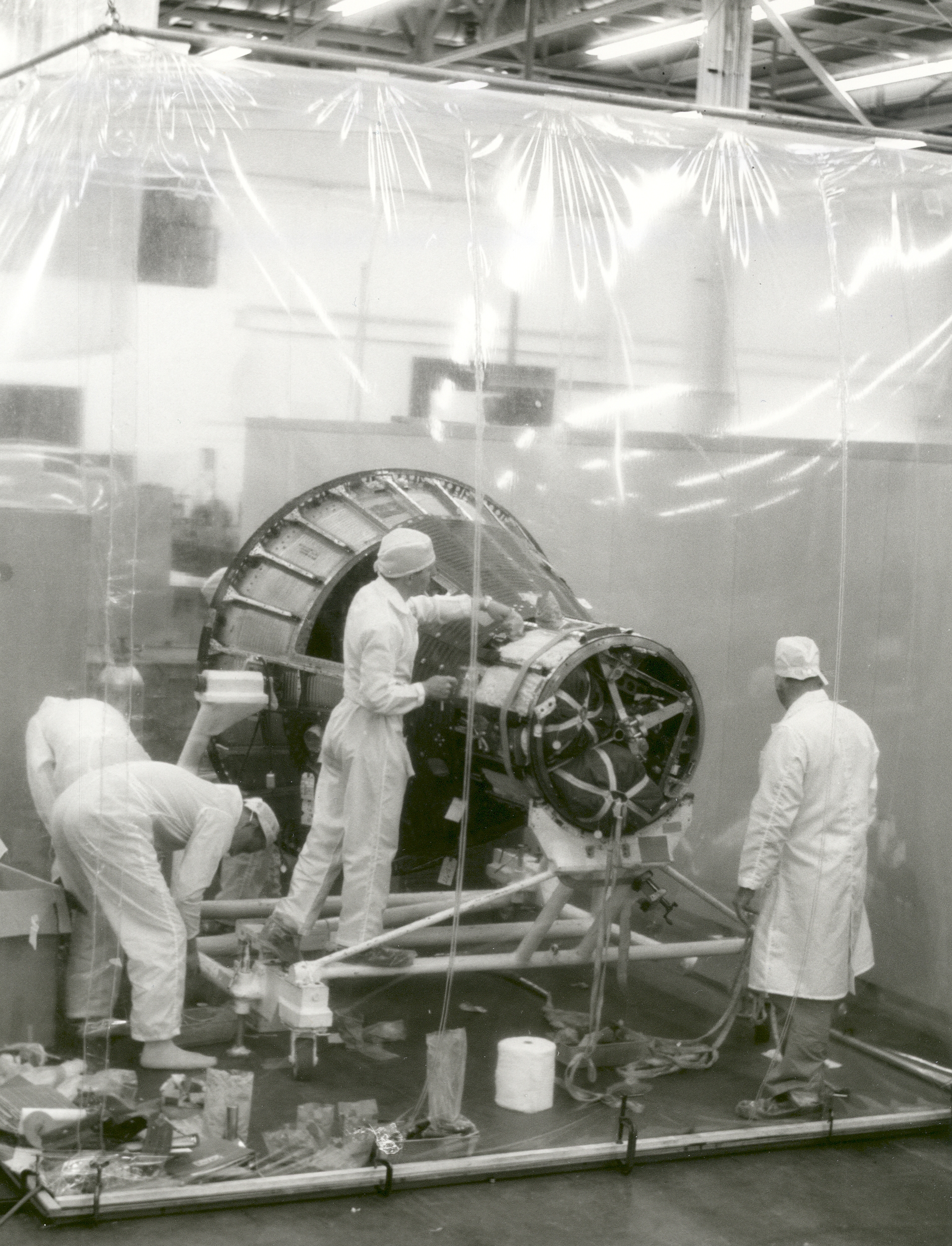 Technicians working in the McDonnell White Room on the Mercury spacecraft.